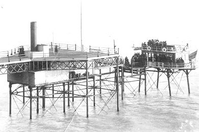 Photo of pier for Daddy Long Legs, vehicle of unusual seagoing railway that existed in Brighton, UK, brtween 1896 and 1901